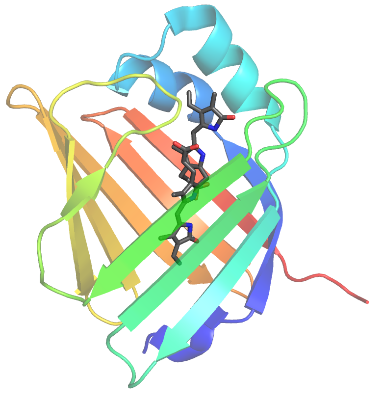 Crystal structure of UnaG with a ligand.